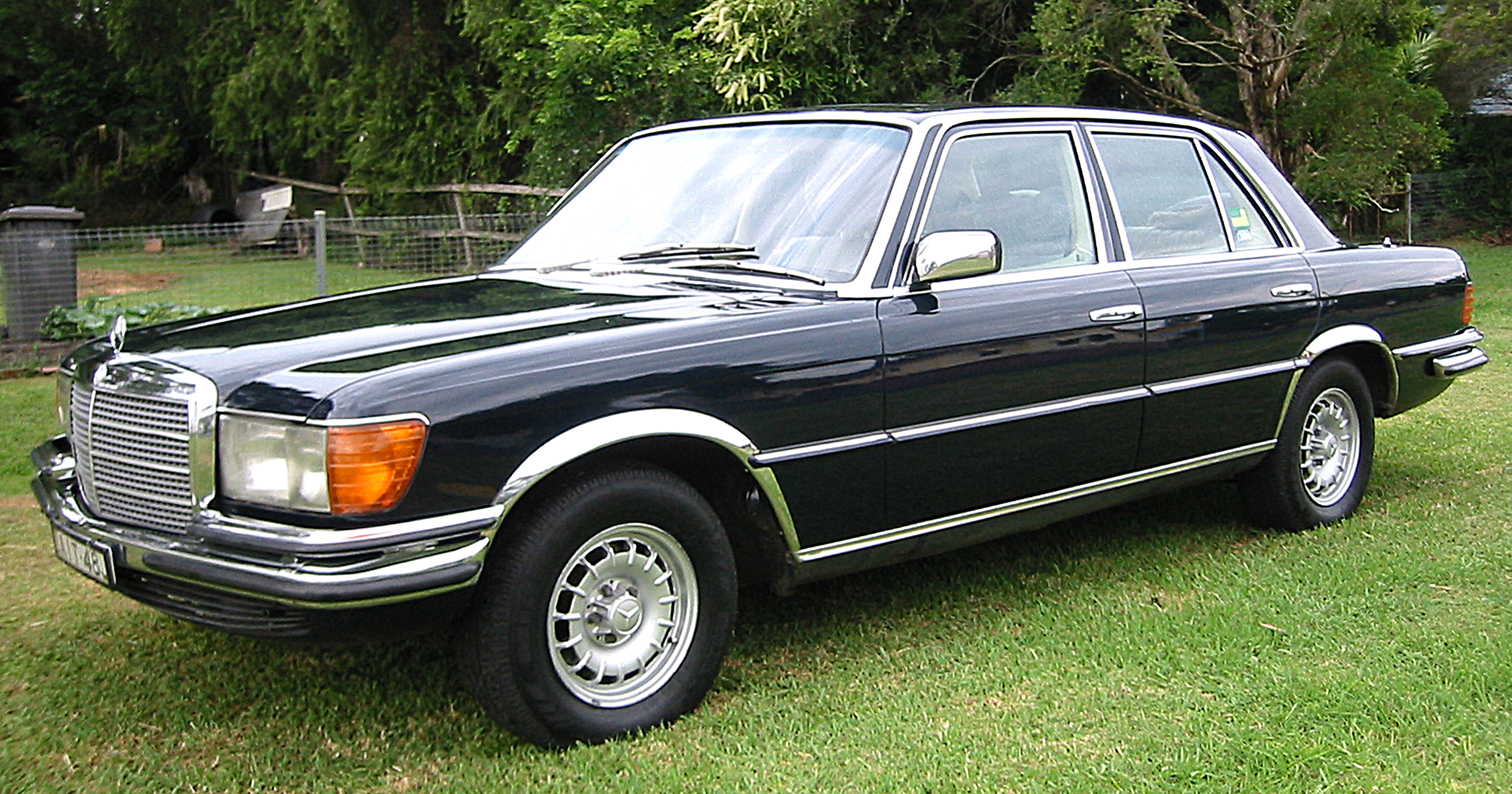 Mercedes Benz W116, photographed in Australia.